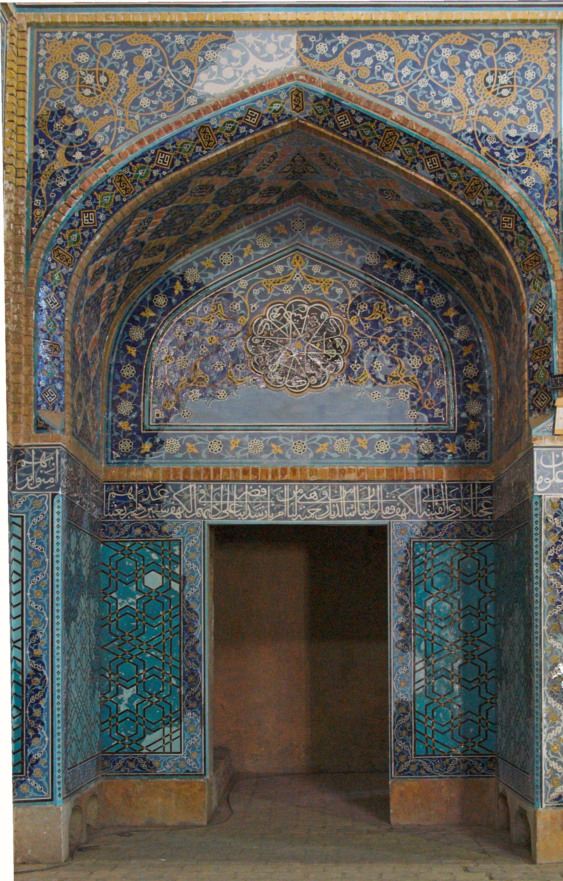 Detail of restoration under work at Tabriz's Blue Mosque